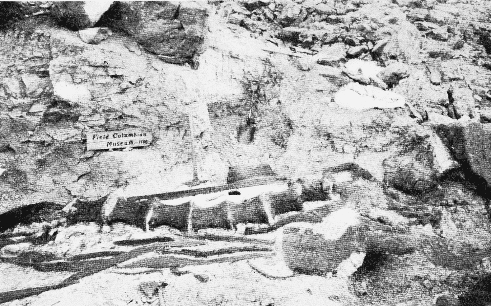 Dinosaur Quarry No. 13 near Grand Junction, Colorado. The dorsal vertebrae, sacrum, ilium, and ribs of the type specimen of Brachiosaurus are seen in the position as found.